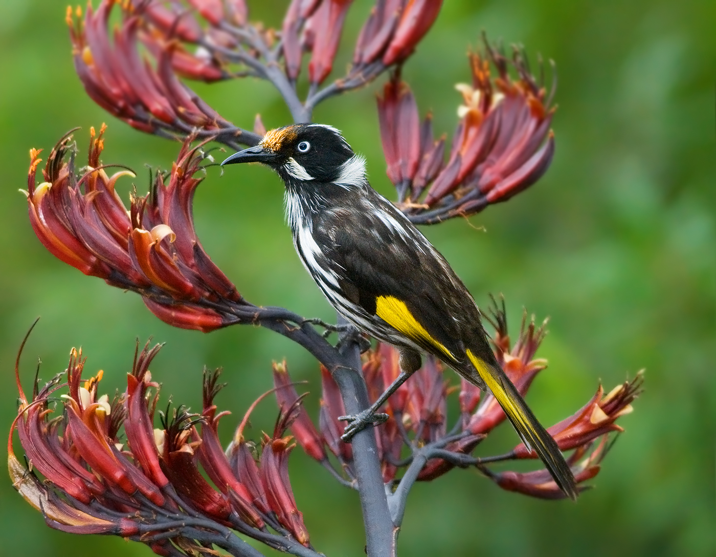 New Holland Honeyeater (Phylidonyris novaehollandiae), Bruny Island, Tasmania feeding on Phormium tenax. The yellow forehead is caused by pollen Camera data Camera Canon EOS 400D Lens Canon EF 400mm f5.6L Flash Fill w/ Fresnel Extender Focal length 400 mm Aperture f/5.6 Exposure time 1/500 s Sensivity ISO 1600